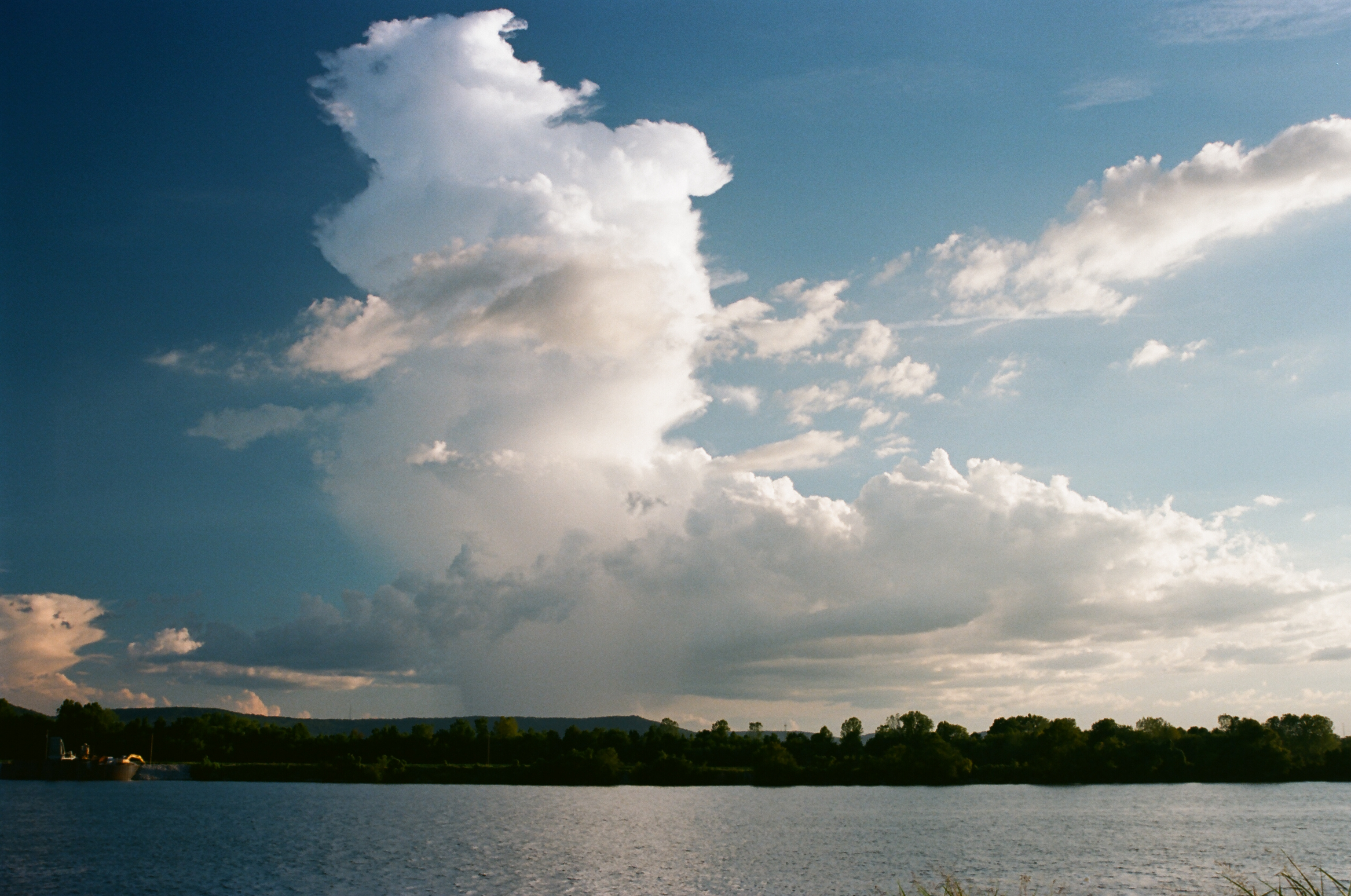 Single cell cumulonimbus South of Whitesburg (Alabama)